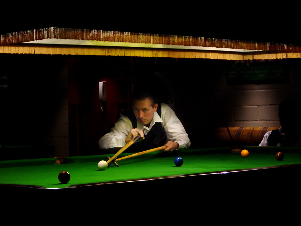 A man playing snooker on a baize-covered table (probably of full competition size but in a perspective making it look smaller)